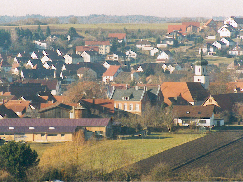 Description: Hermaringen from north east Author: Stefan Stegemann Date: 1999 License